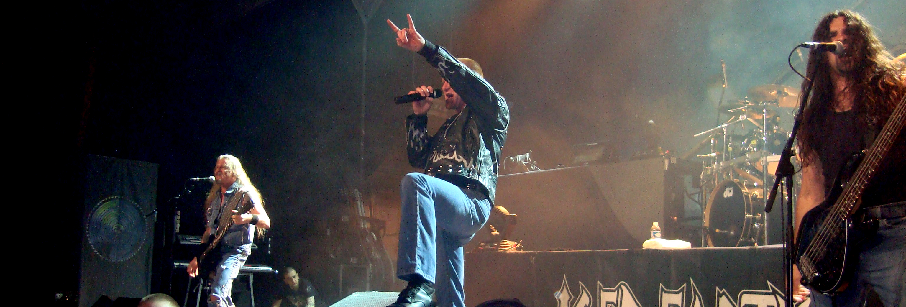 Iced Earth during the show at Tyrol in Stockholm, Sweden.